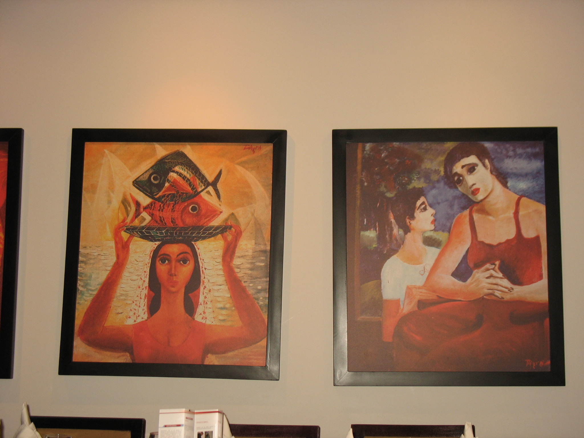 Orlando Rivera's works at La Cueva